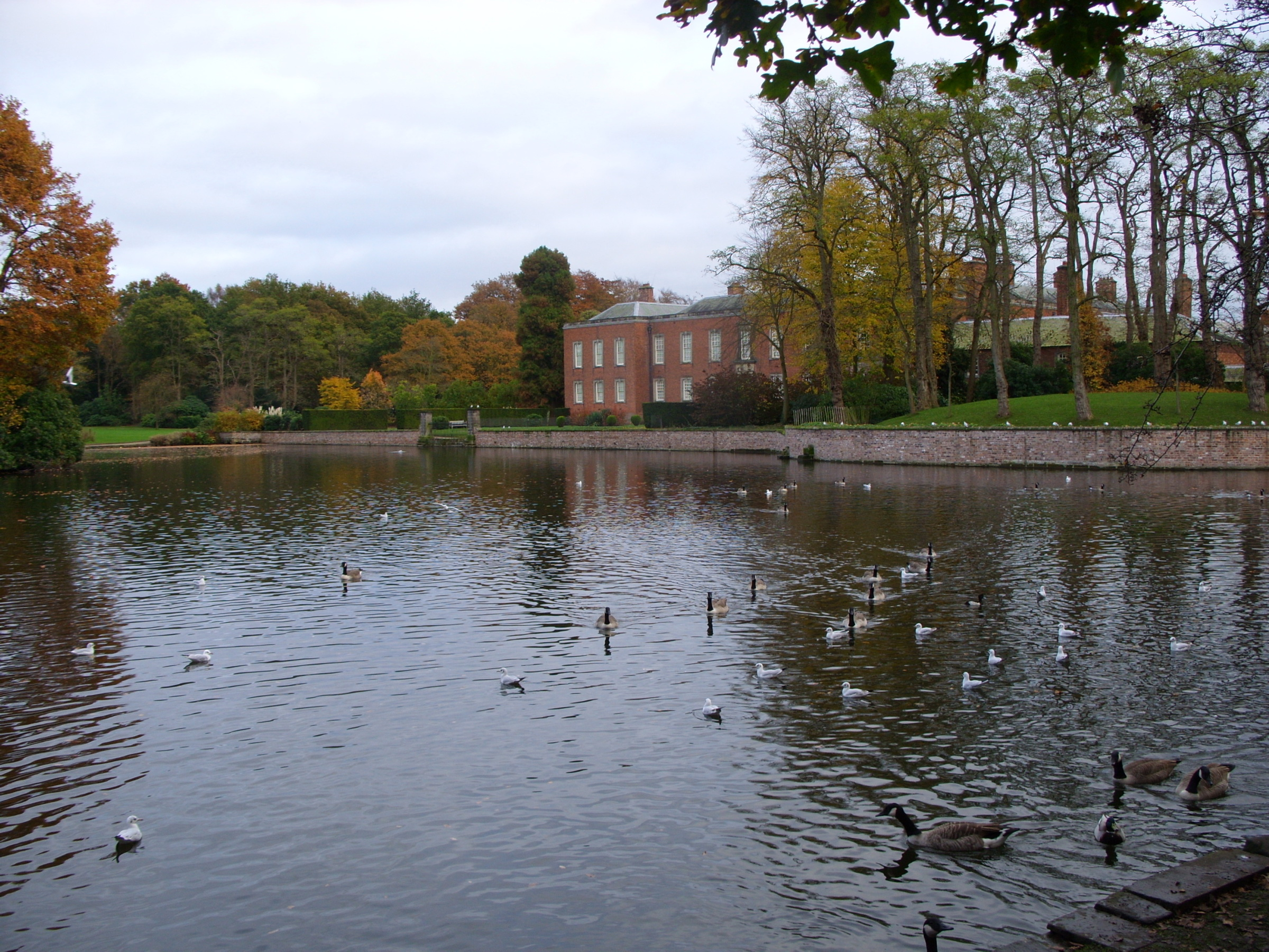 Dunham Massey Hall